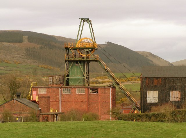 Florence Mine Egremont Florence Mine is the last working Iron Ore mine in Europe. At the site heritage centre there is mining museum, geology and mineral room.